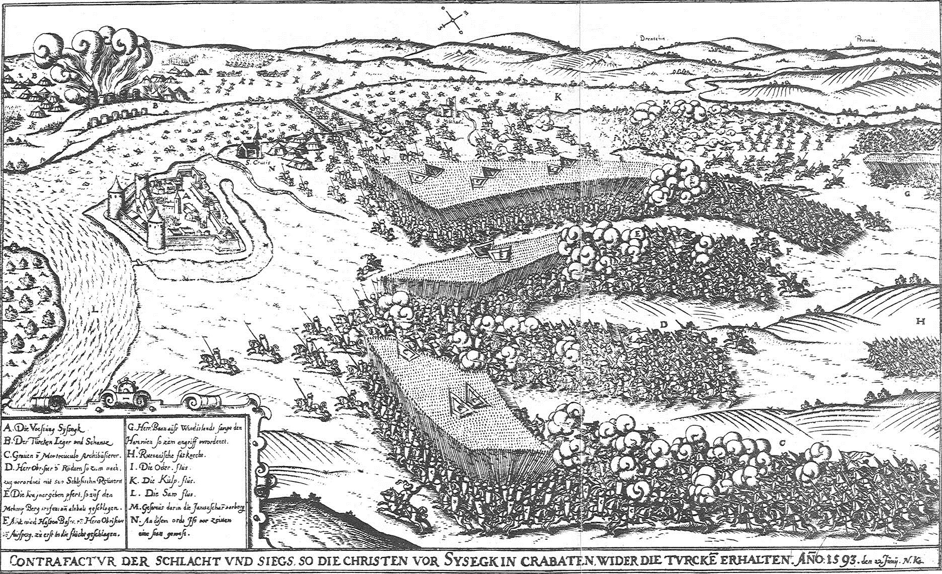 The Battle of Sisek (Bitka pri Sisku) in 1593. German painting